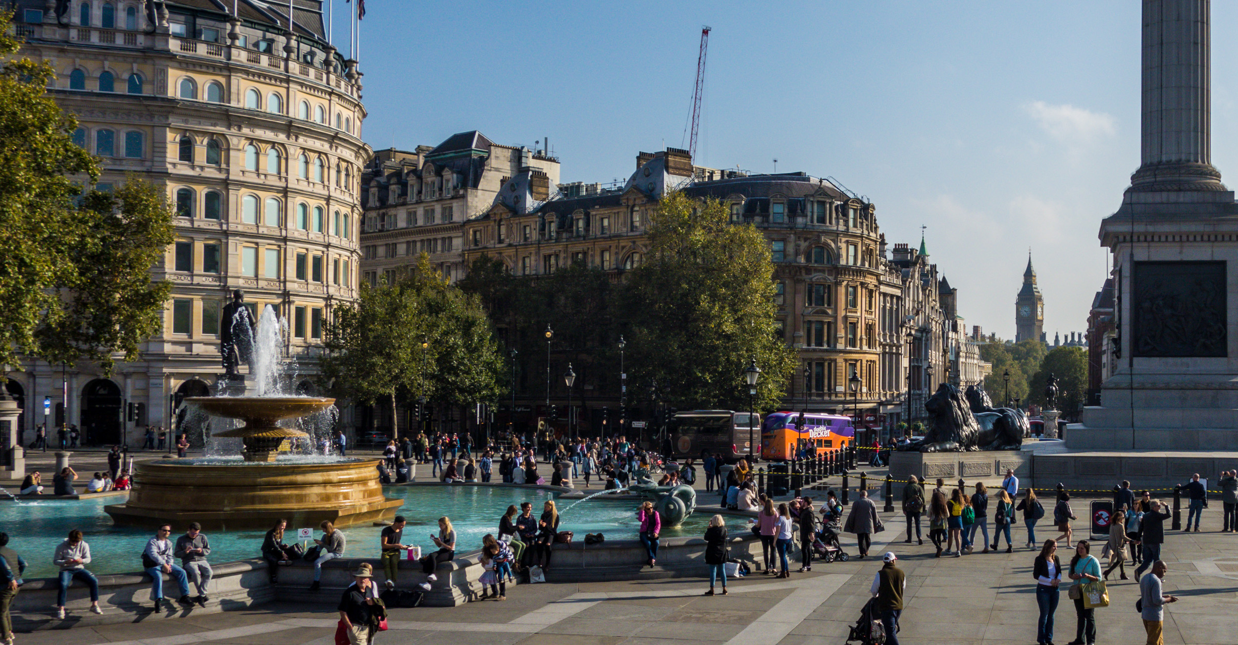 UK - London